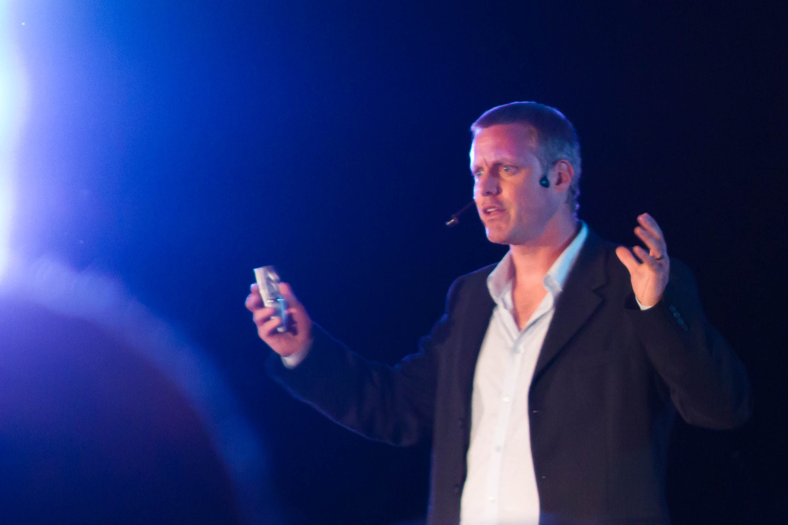 Feel free to use this image just link to